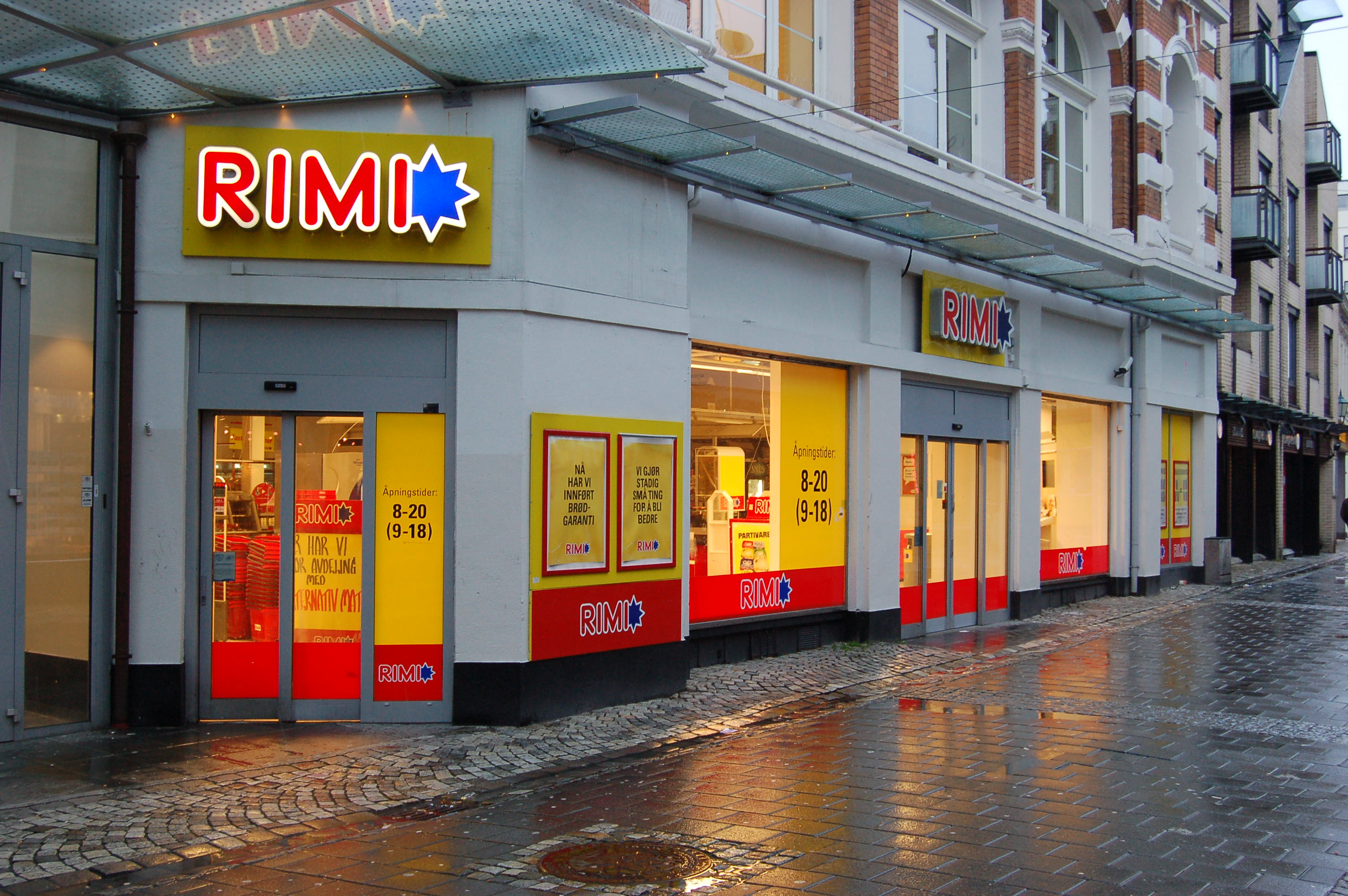 RIMI supermarket in Bergen, Norway.